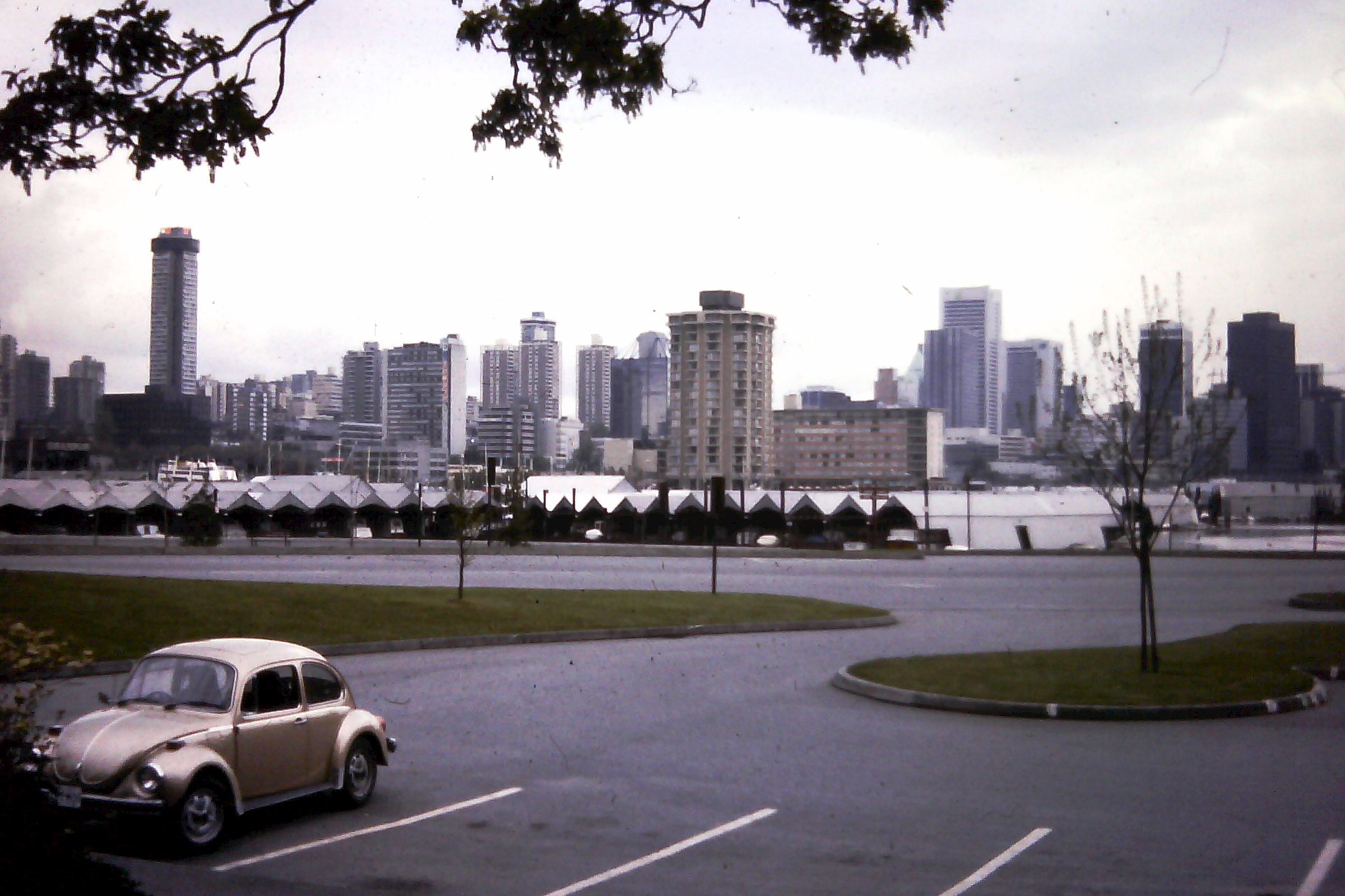 I had originally thought this was Ottawa but was corrected and advised that it is actually Vancouver. My dad recognized the gold Beetle as the car he drove while in Vancouver. This picture was taken by my father and I scanned the slide.